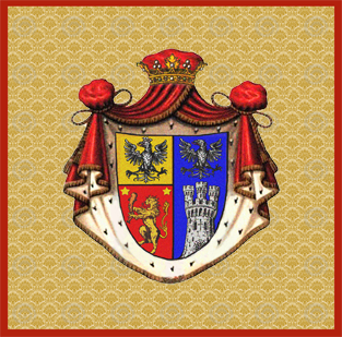 Coat of Arms of Mazzetti di Pietralata family